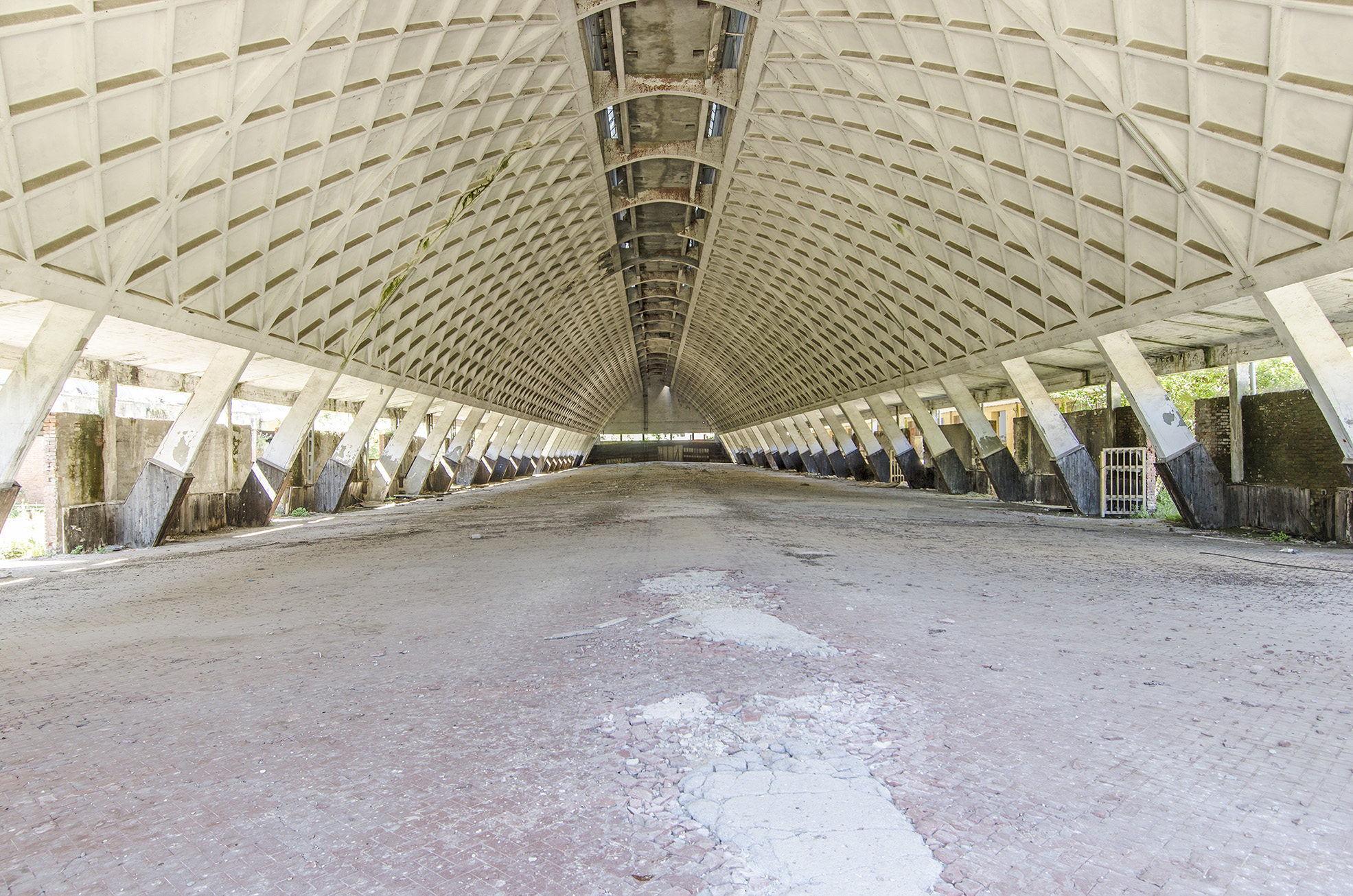 The salt warehouses of Tortona made ​​by Pier Luigi Nervi